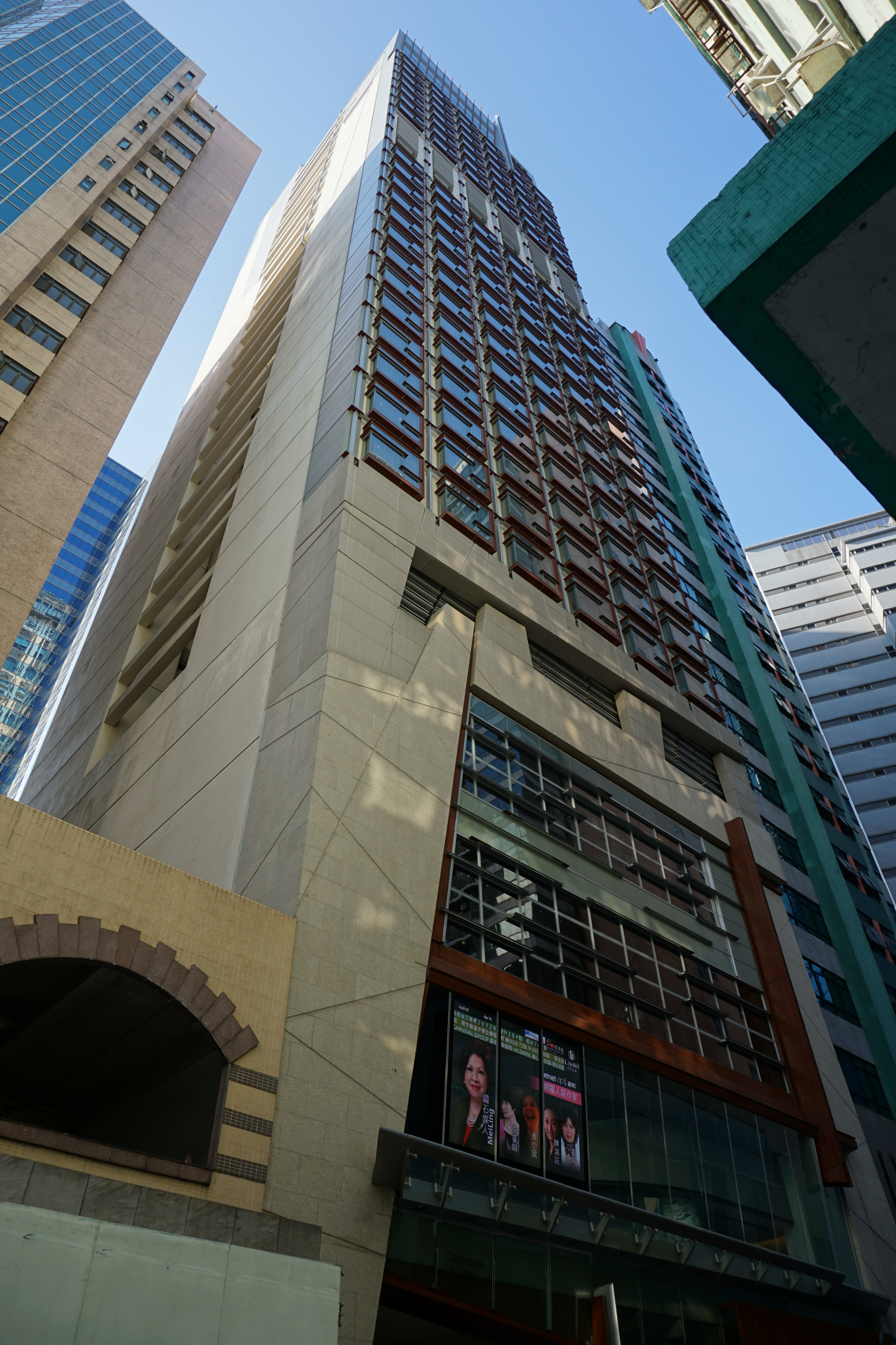 L'hotel élan in Ngau Tau Kok, Hong Kong.